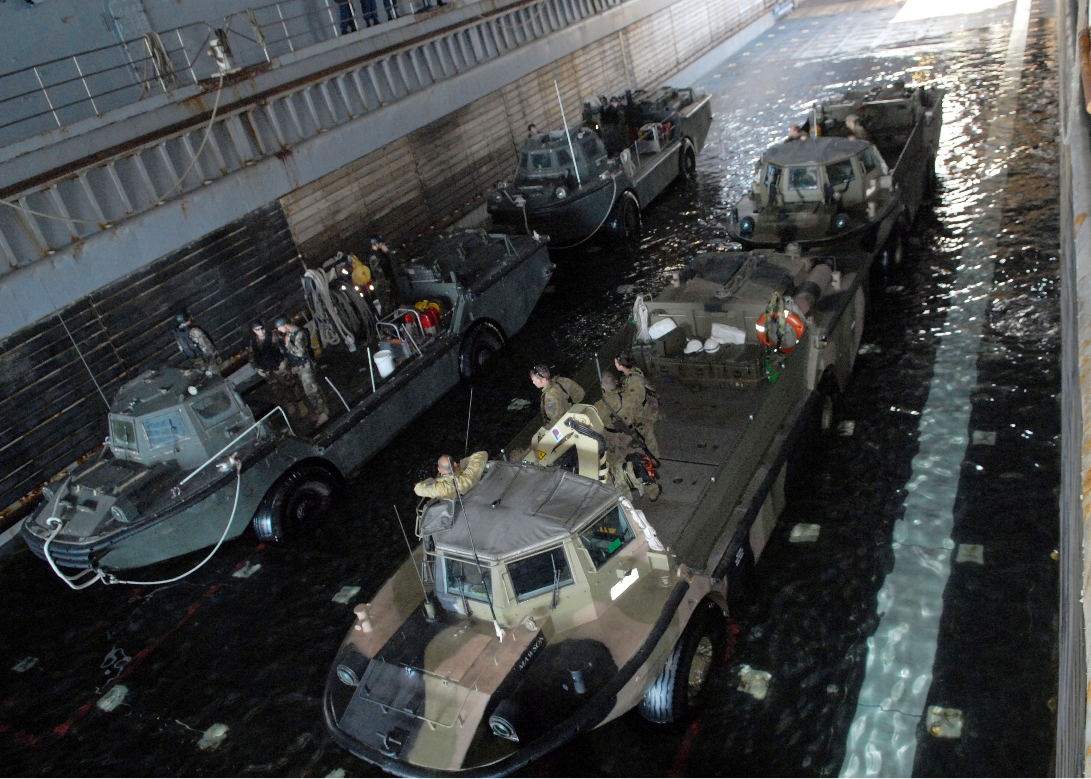 CORAL SEA (July 8, 2009) U.S. and Royal Australian Navy lighter amphibious resupply cargo (LARC) vessels prepare to conduct launch and recovery training exercises aboard the amphibious dock landing ship USS Tortuga (LSD 46). Tortuga is part of the Essex Amphibious Ready group, underway for Summer Deployment and participating in military exercise Talisman Saber 2009. Talisman Saber is a biennial combined training activity hosted by the Australian Defense Force designed to train Australian and U.S. forces in planning and conducting combined task force operations. (U.S. Navy photo by Mass Communication Specialist 1st Class Geronimo Aquino/Released)